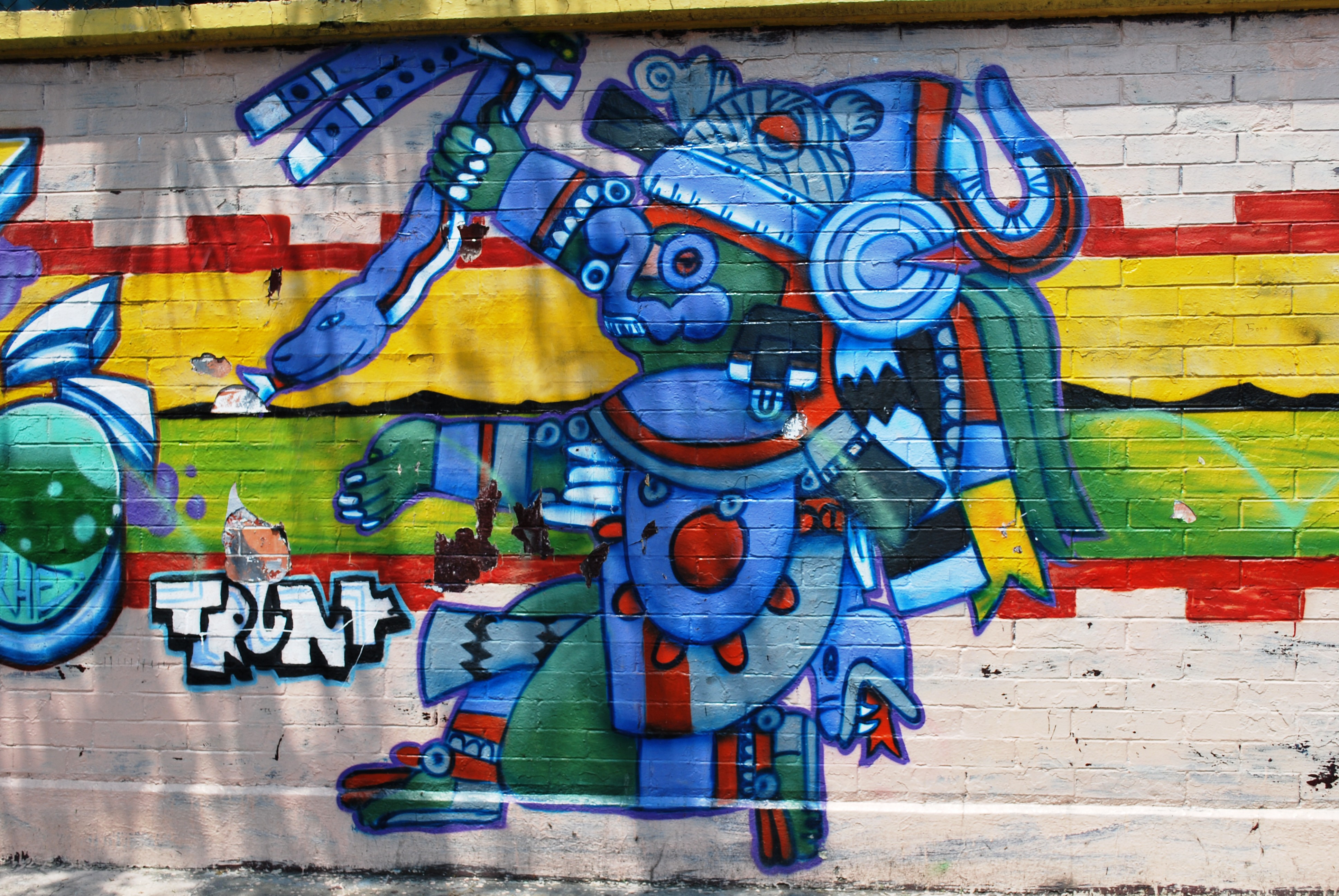 Mural section with Aztec diety, probably Tlaloc, on the outside wall of Millan Primary School in Mexico City